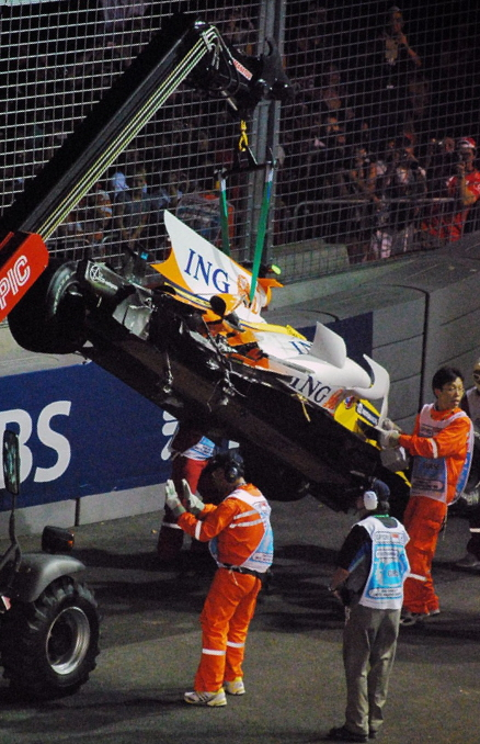 Nelson Angelo Piquet's crashed car at 2008 Singapore Grand Prix